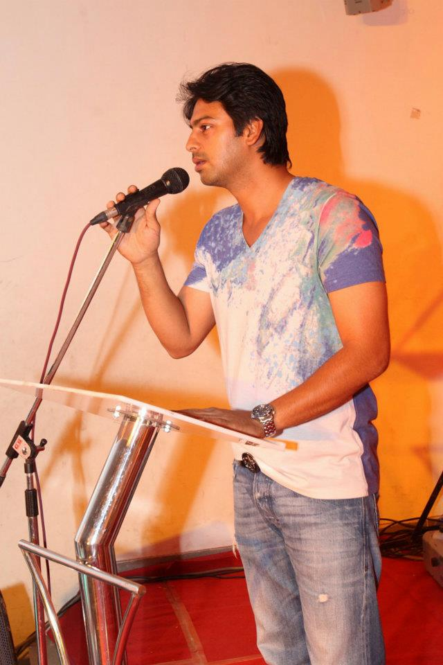 Actor Srikanth in a function.